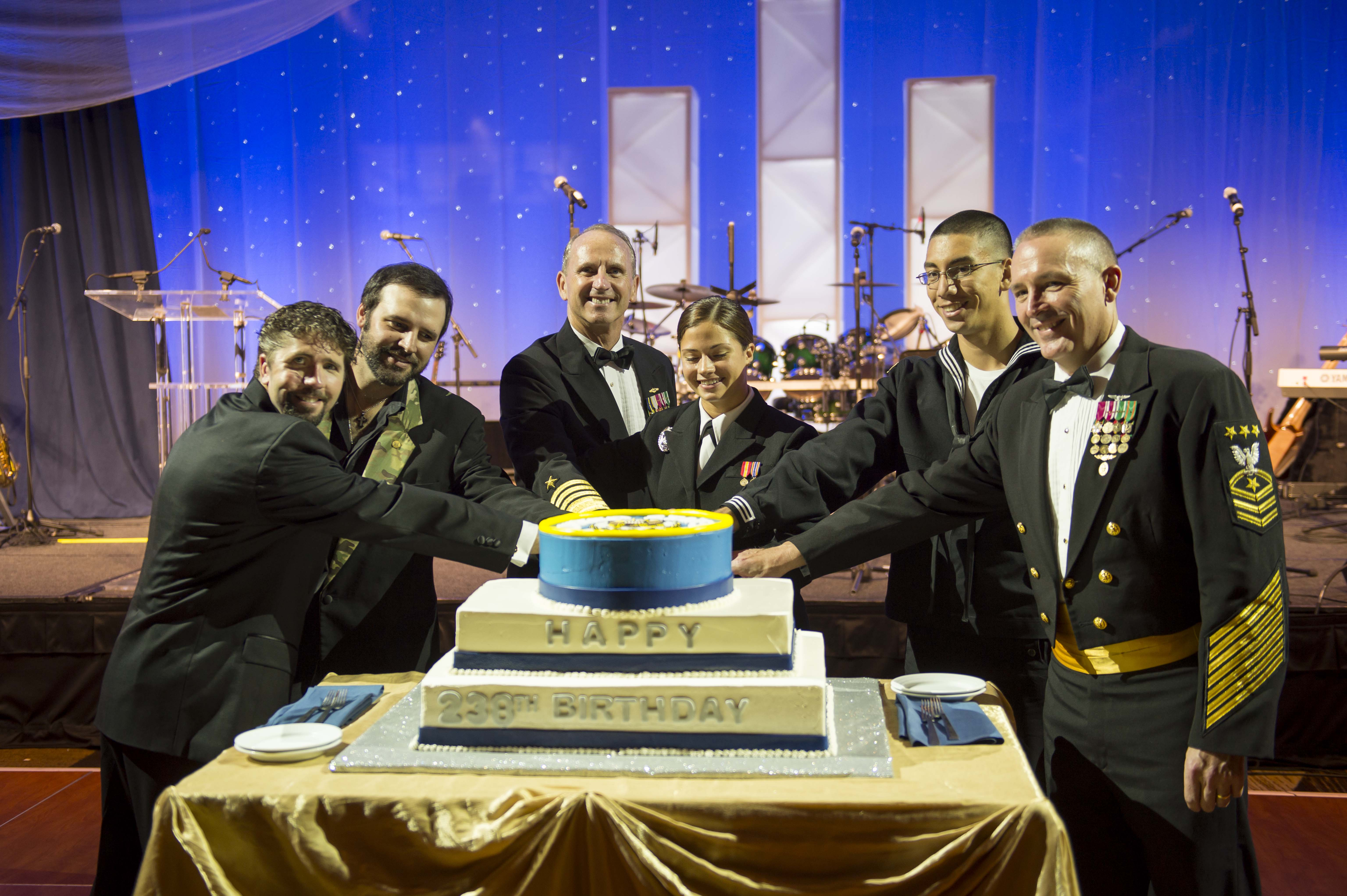 WASHINGTON (Oct. 12, 2013) From left to right, retired Navy SEAL Lt. Jason Redman, country music singer Mark Wills, Chief of Naval Operations (CNO) Adm. Jonathan Greenert, the two youngest Sailors in attendance and Master Chief Petty Officer of the Navy Mike Stevens cut a birthday cake together at the U.S. Navy Birthday Ball in Washington, D.C. The ball was in celebration of Navy's 238th birthday Oct. 13, 2013. (U.S. Navy photo by Chief Mass Communication Specialist Peter D. Lawlor/Released) 131012-N-WL435-343 Join the conversation navylive.dodlive.mil